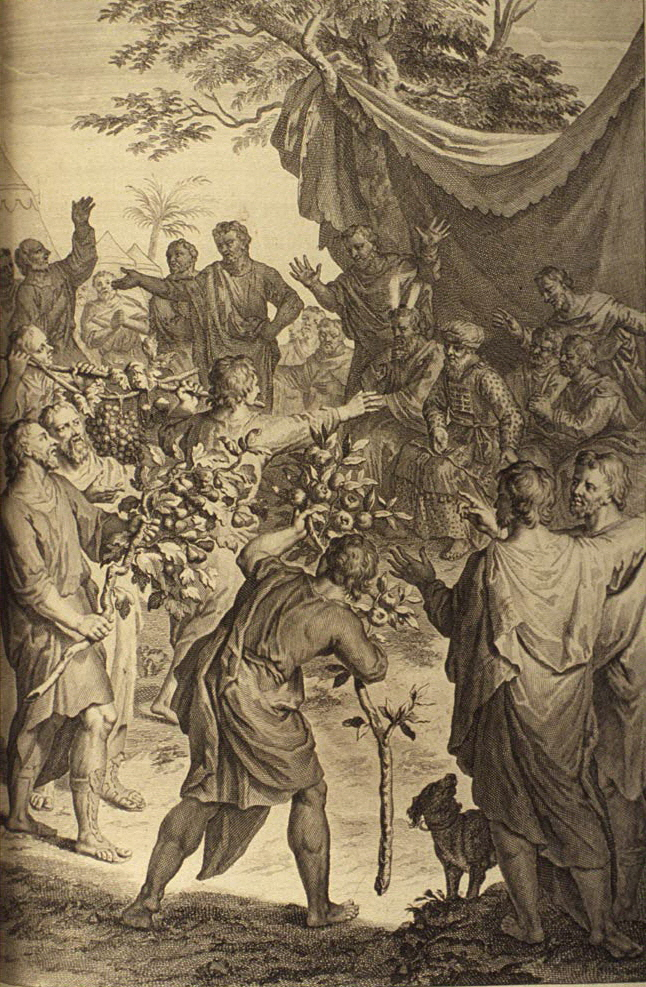 The spies showing the fertility of Canaan, as in Numbers 13:23-26, illustration from the 1728 Figures de la Bible, illustrated by Gerard Hoet (1648-1733), and others, published by P. de Hondt in The Hague in 1728; image courtesy Bizzell Bible Collection, University of Oklahoma Libraries